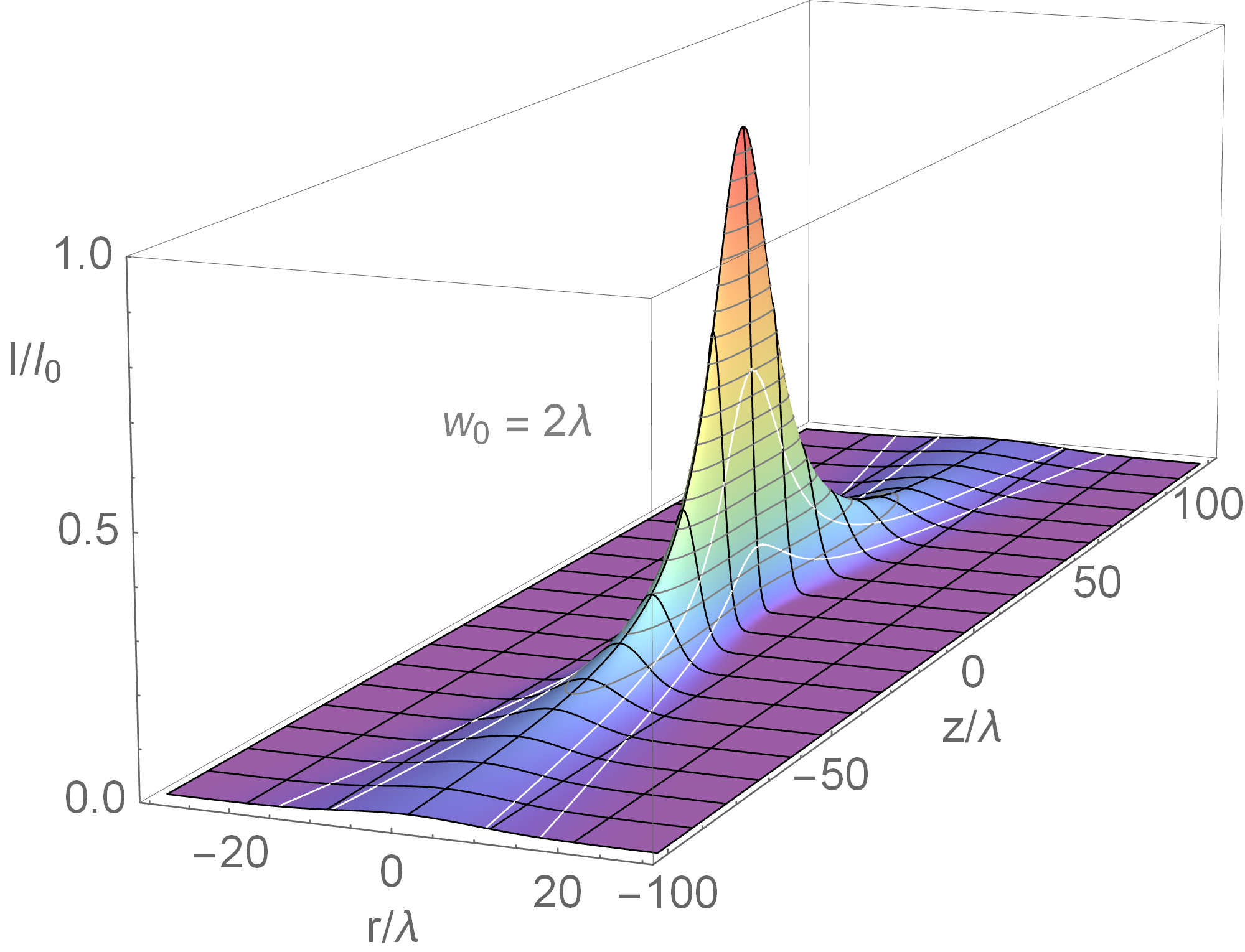 Surface plot of the intensity profile of a Gaussian laser beam with beam waist w 0 = 2 λ {\displaystyle w_{0}=2\lambda } . The height profile is proportional to the beam intensity, while the color is proportional to the electromagnetic field amplitude. The white lines represent the beam width, both at the FWHM and 1/e² intensity level.